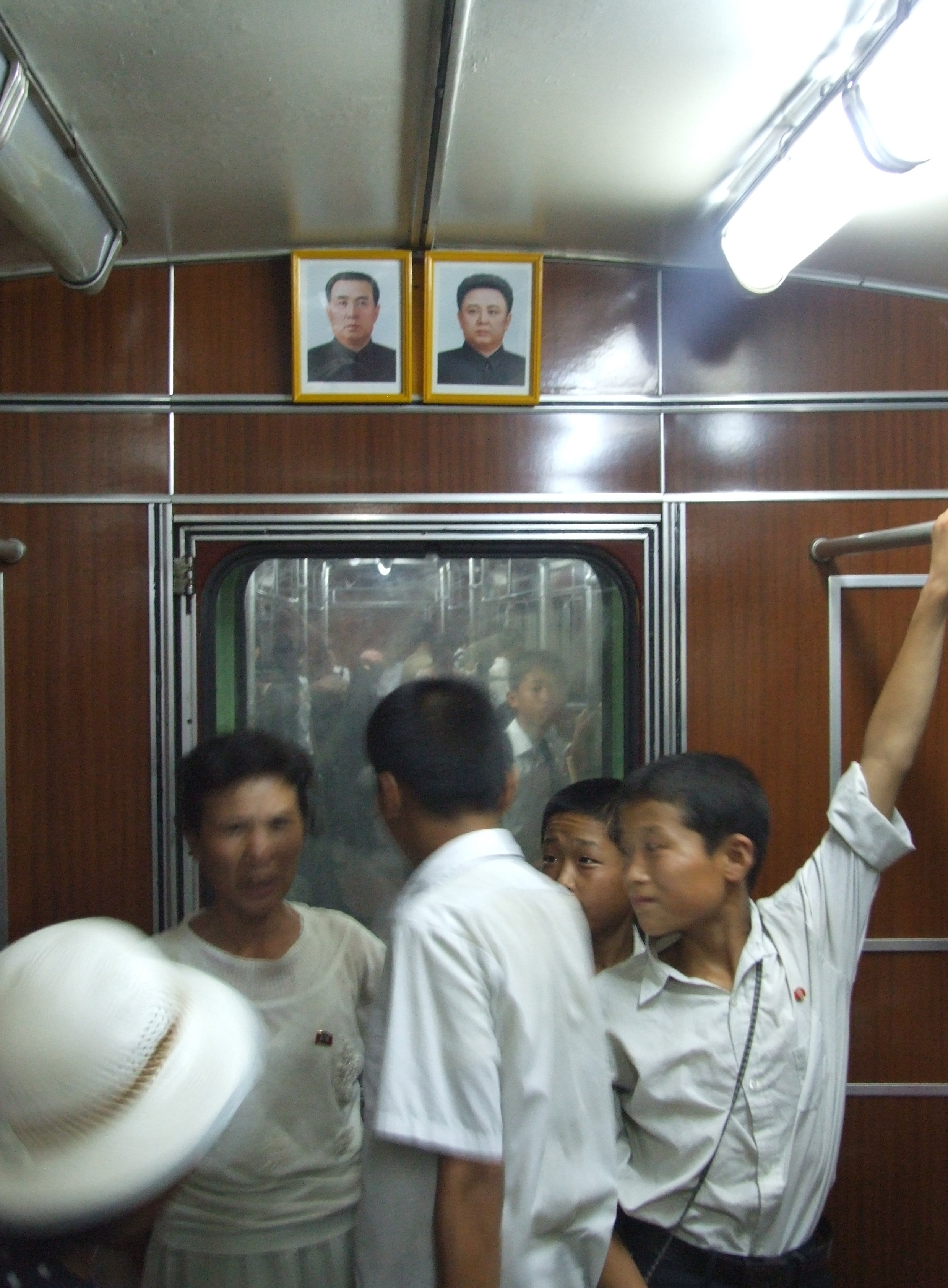 People in Pyongyang Metro